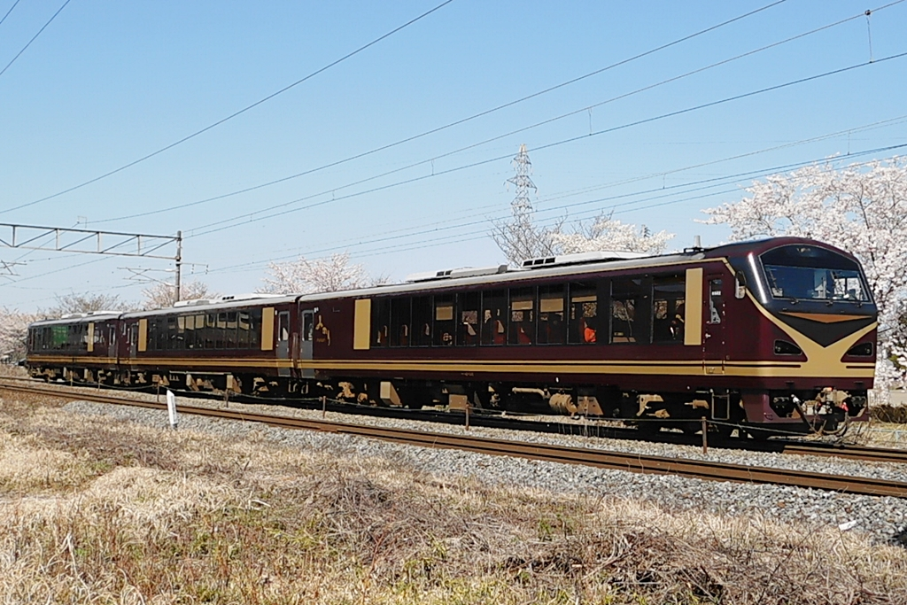 JR East "Resort-Minori"